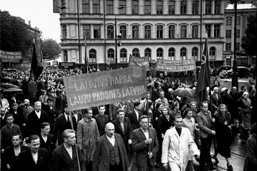 Demonstration in Riga. 1940 in Latvia.